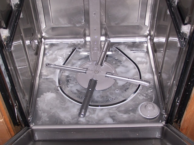 dishwasher disassembly for repair/replacement of chopper